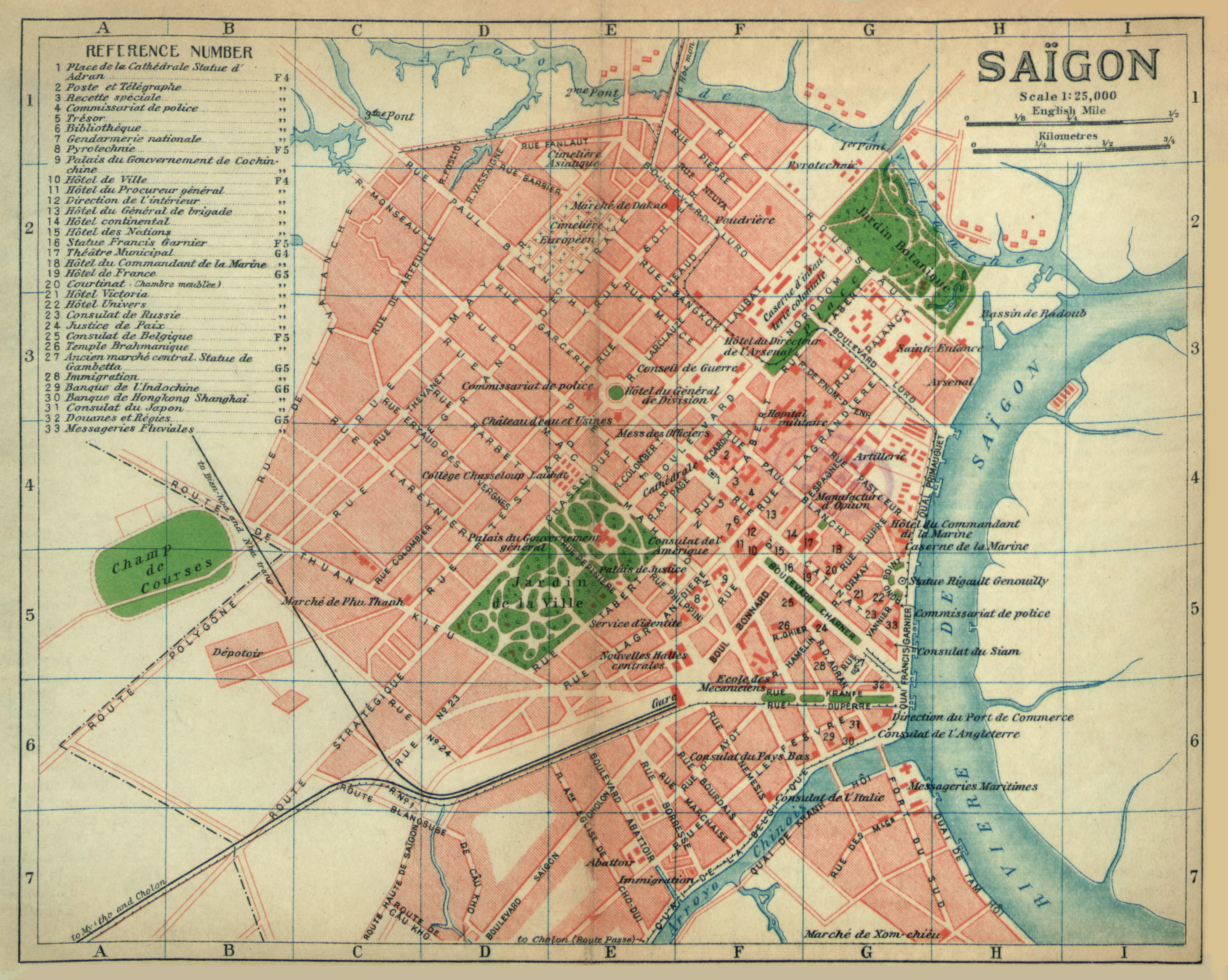 Map of Saigon printed in a book published by Japanese Department of Railways in 1920 named "An official guide to eastern Asia - vol 5".